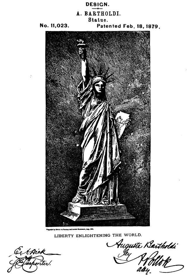 Image of a page from U. S. Patent D11023, copied from USPTO website, and cropped and reduced in size. This is Bartholdi's design patent for the Statue of Liberty, issued in 1879. I believe it to be in the public domain in the U. S. because I believe issuing of a patent constitutes publication, and this was issued in 1879. See Template_talk:PD-US-patent for other reasons. Note that the patent itself has expired.